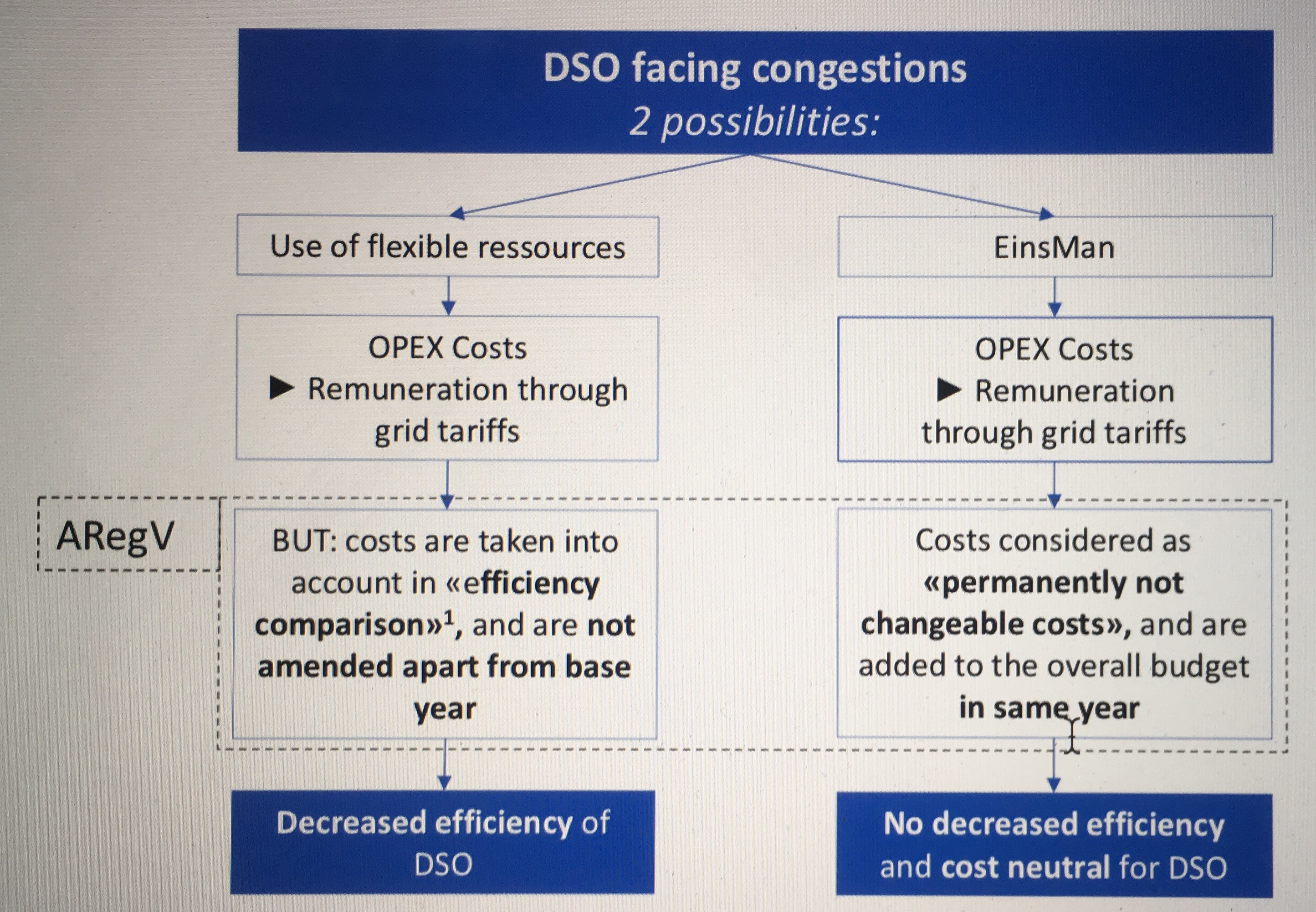 Local flexibility markets: Current German Regulatory Framework